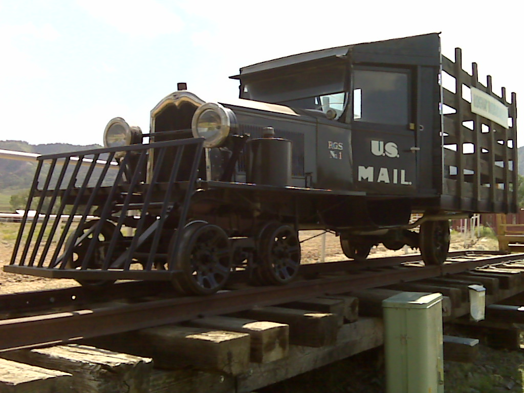 This is a replica of the first Galloping Goose. It used the rails to transport mail in the Rockies.